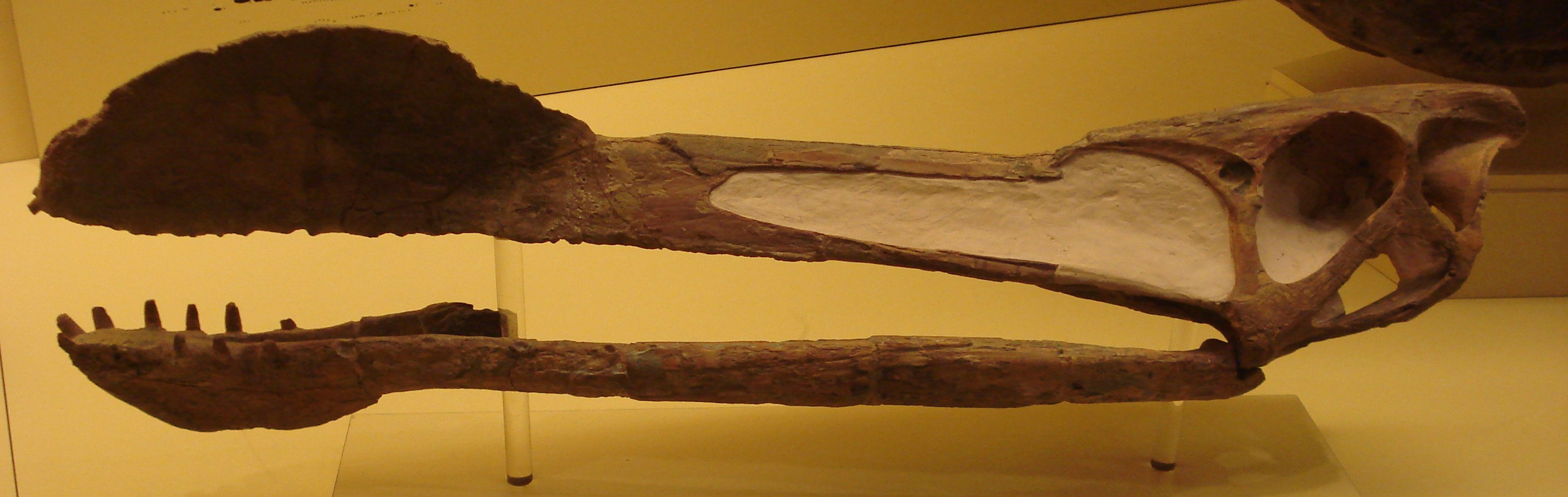 fossil tropeognathus